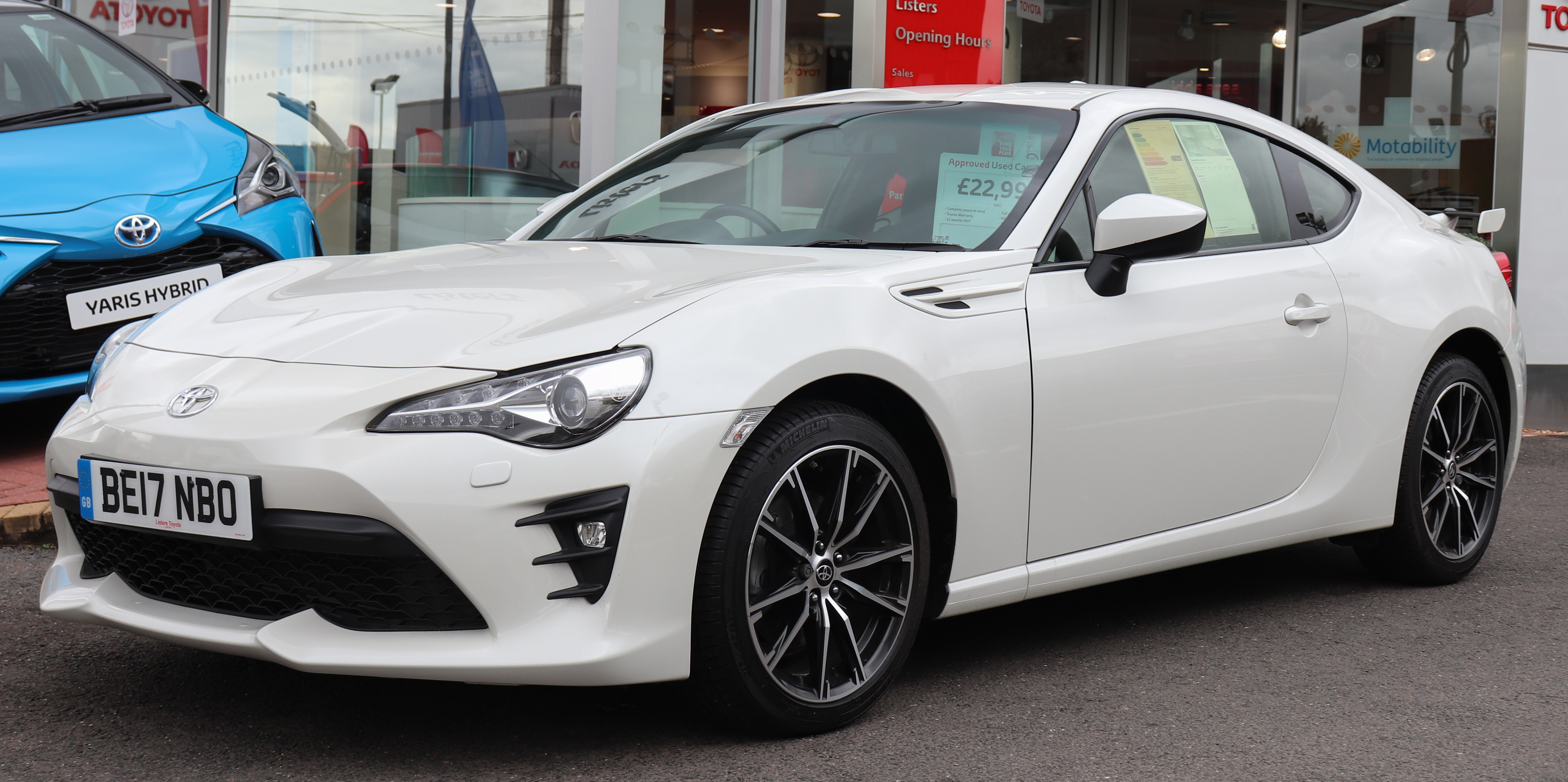 2017 Toyota GT86 PRO D-4S 2.0 Taken in Stratford-upon-Avon